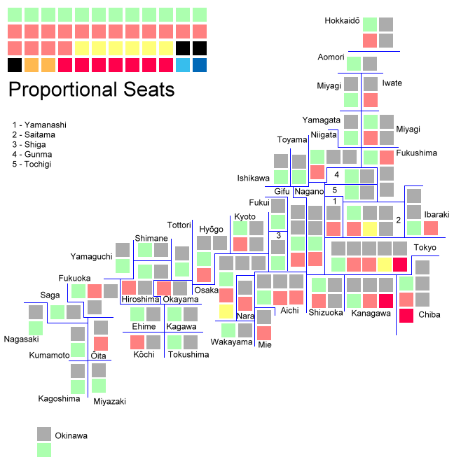 map of seats of Japanese House of Councillors election, 2007 ■ – Seats up for election ■ – No election